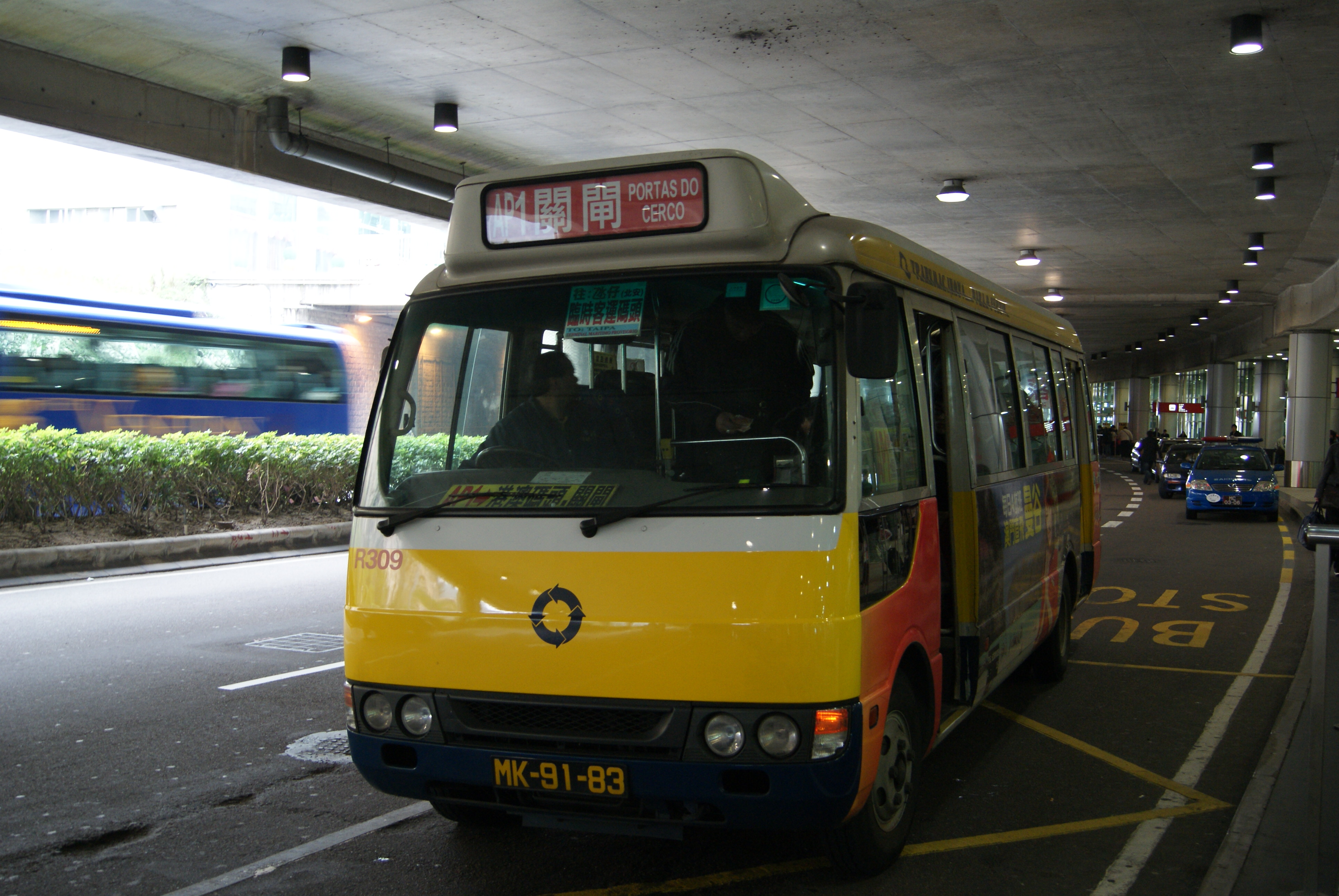 Transmac R309 at AP1